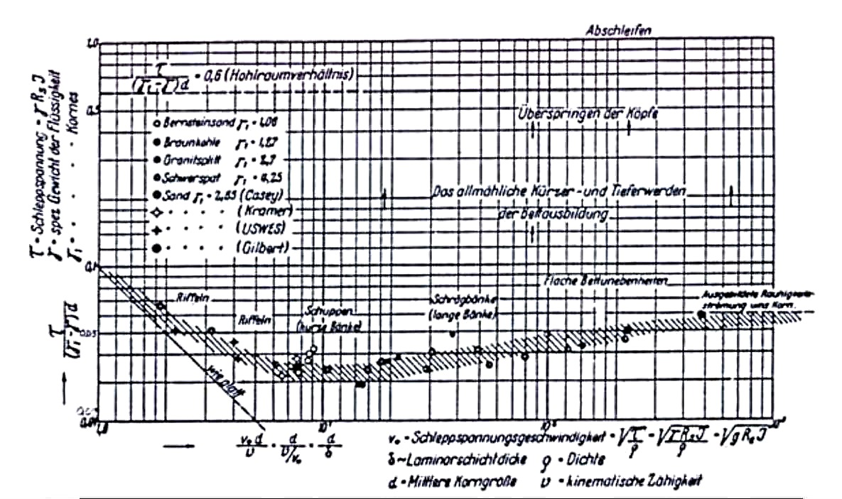 This is the original diagram published by Albert Shields in 1936.